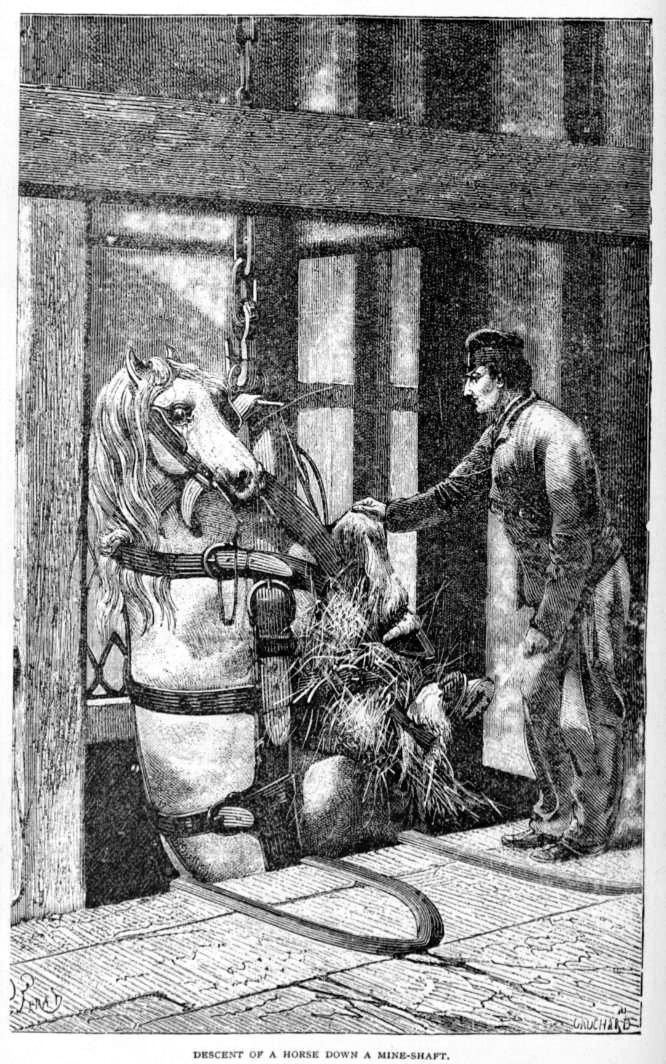 Illustration from book.